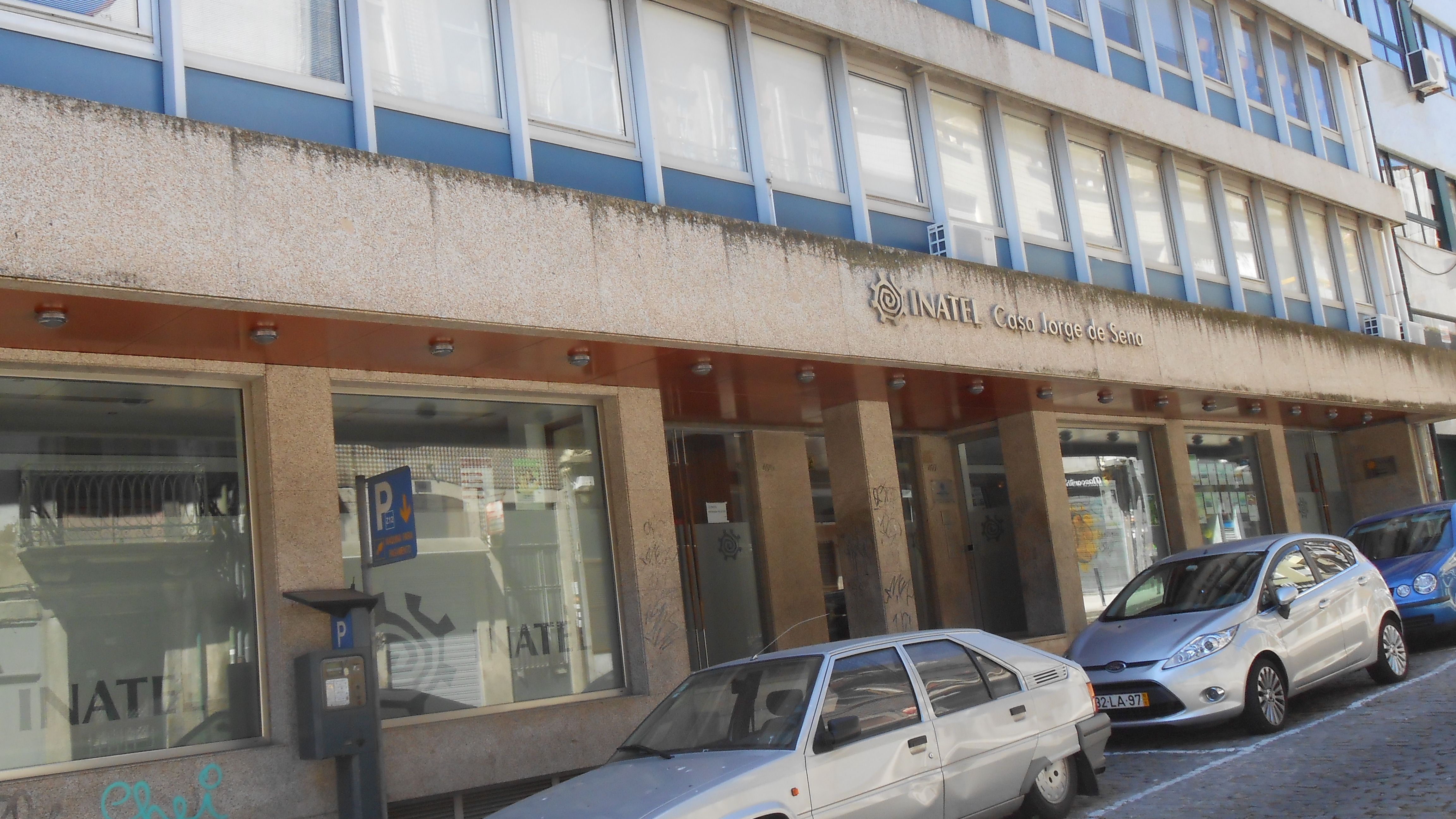 "Casa Jorge de Sena", the INATEL office in Porto